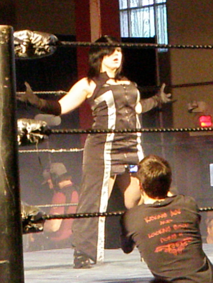 Professional wrestler Kalamity in the ring at NCW Femmes Fatales 3 in Montreal on June 5 2010. Cropped from original.